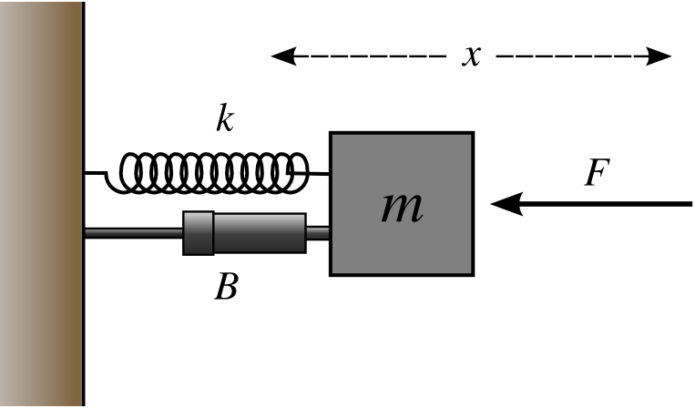 A mass/spring/damper system drawn in Inkscape by Ilmari Karonen. SVG original available at Image:Mass-Spring-Damper.svg or at [1].